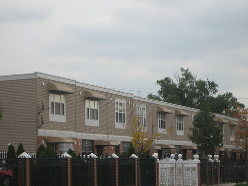 I took this photo and release it under cc-by-sa.